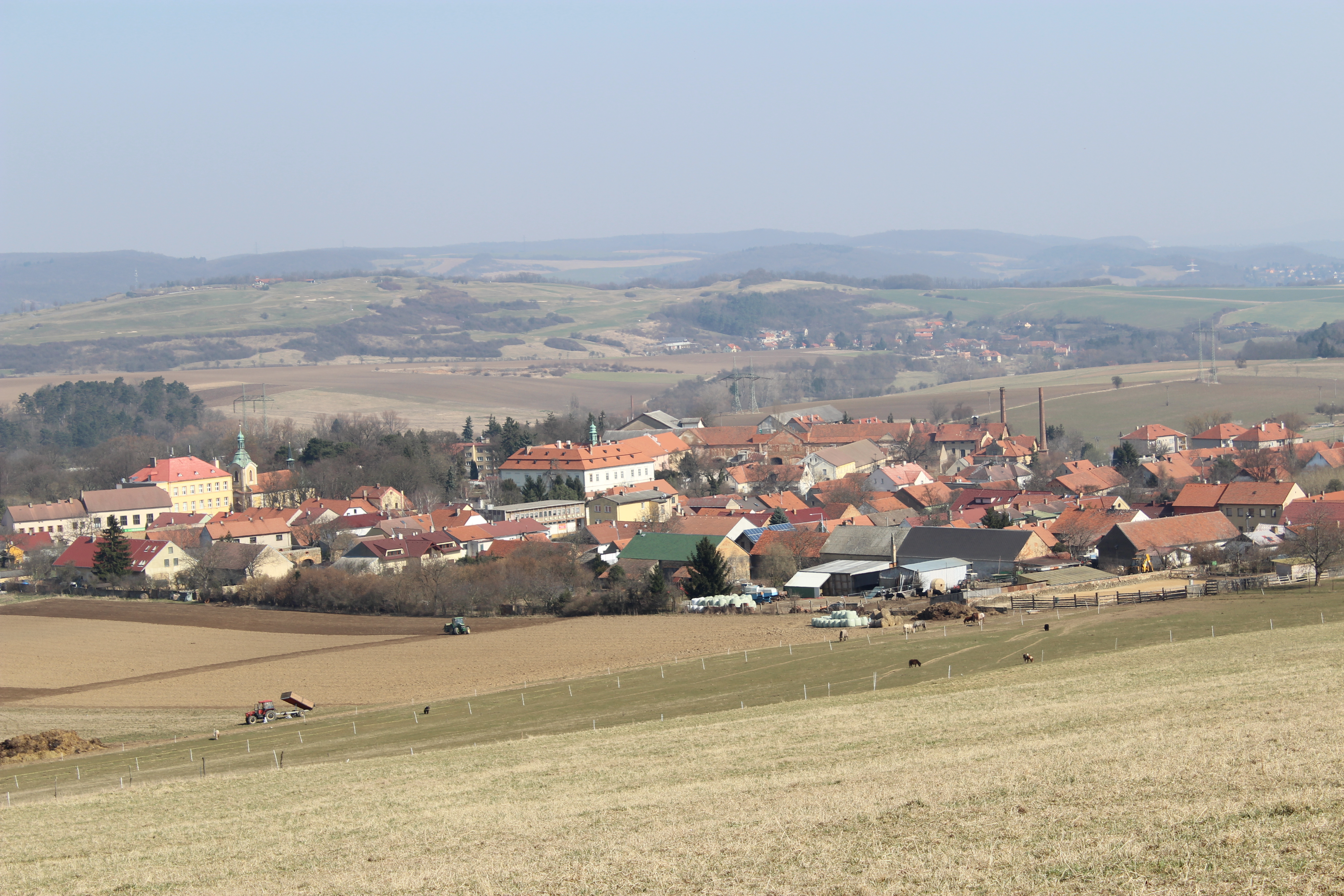 View of Liteň.Castle Liteň. Church of Saints Peter and Paul in Liteň.